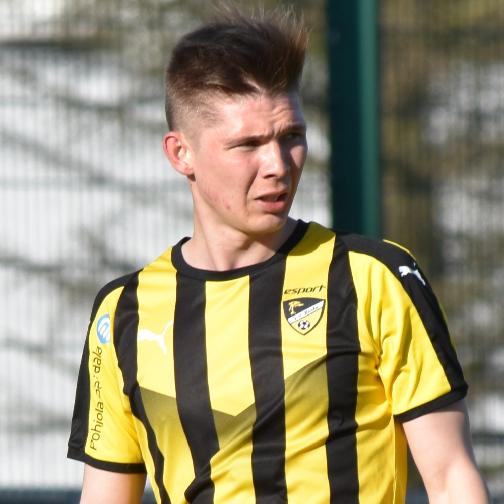 Association football player Jonas Levänen (FC Honka)